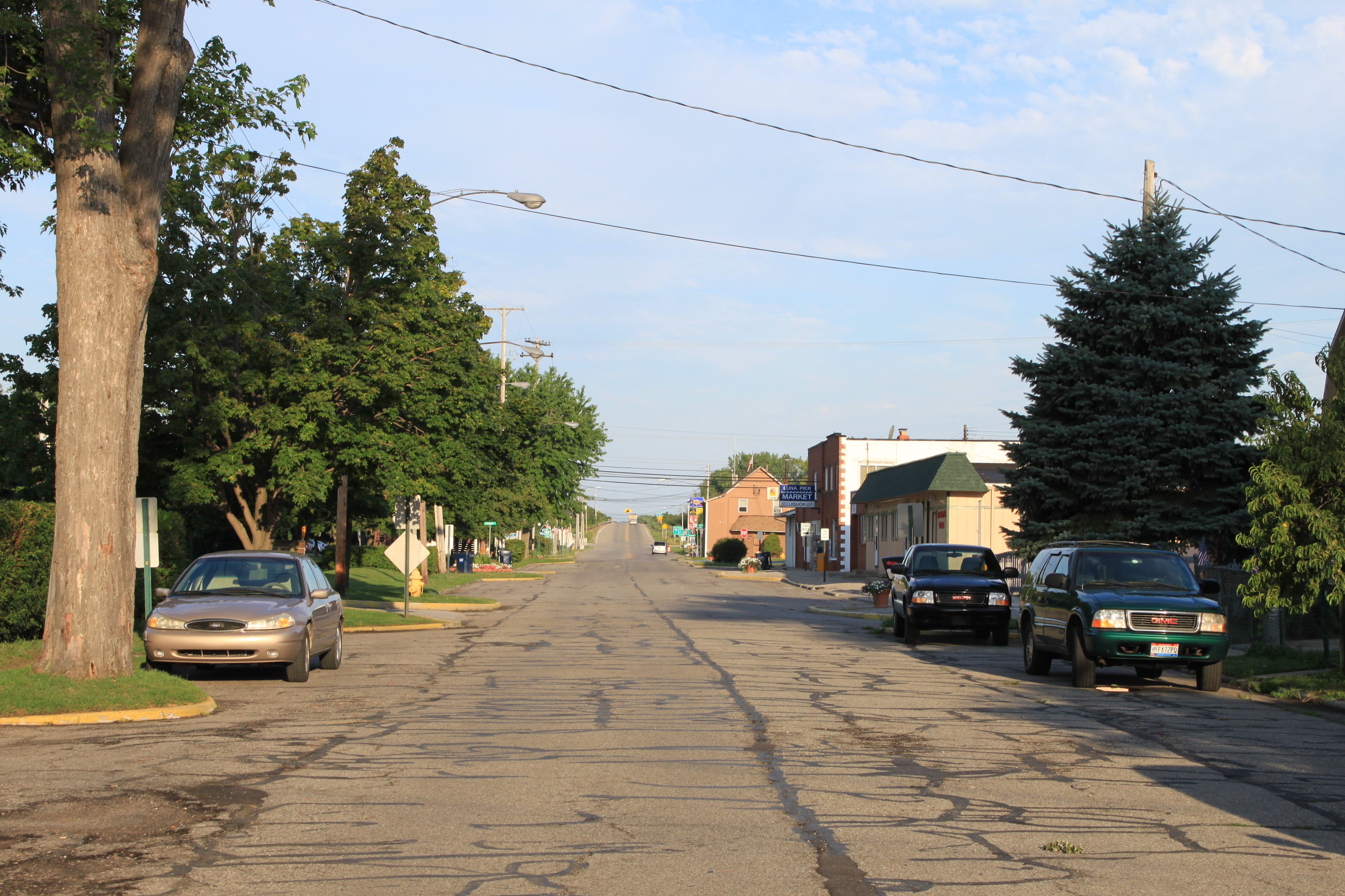 Luna Pier Michigan, Luna Pier Road facing west from the pier toward I-75 interchange